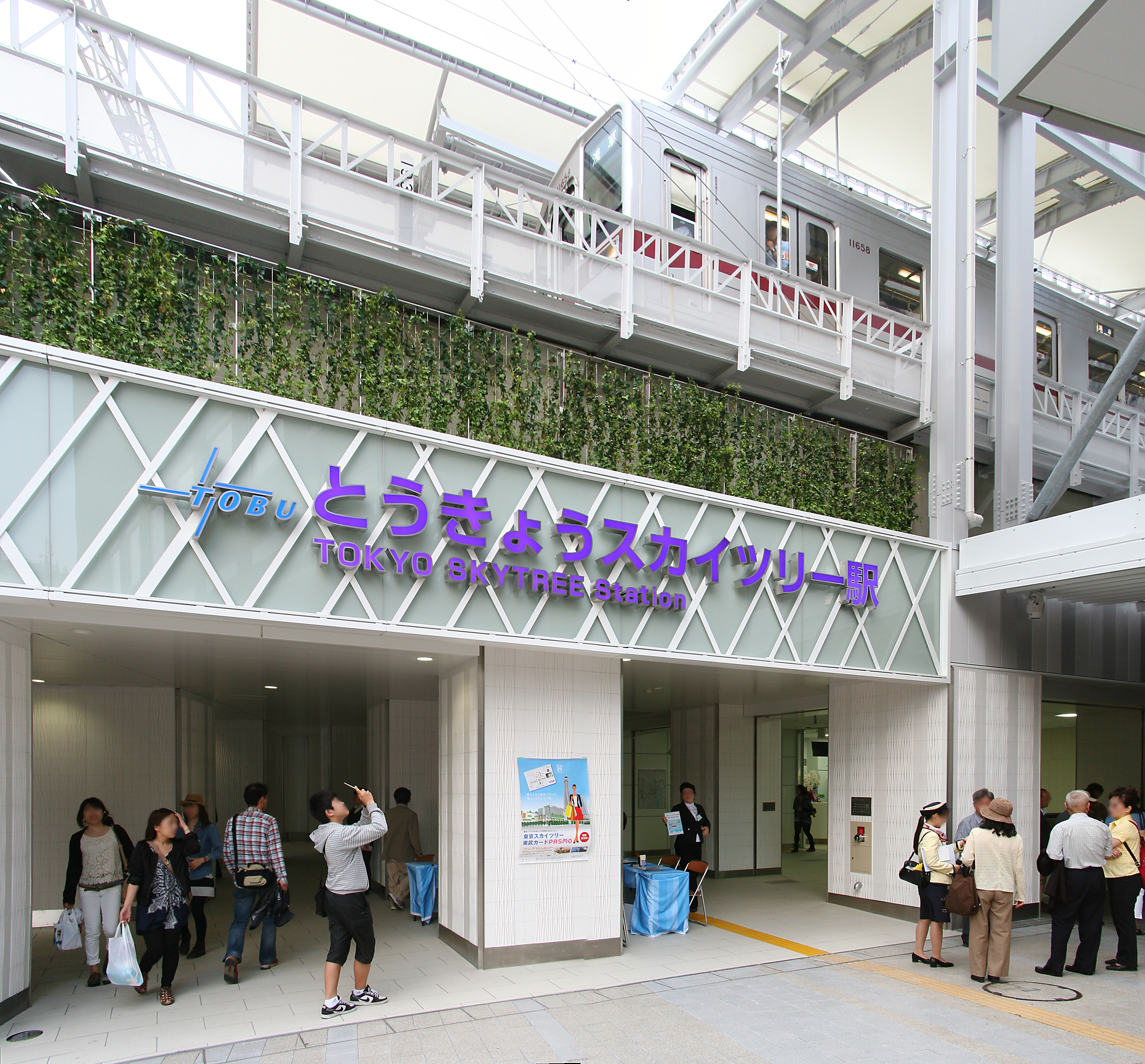 Tokyo Skytree Station on the Tobu Skytree (Isesaki) Line